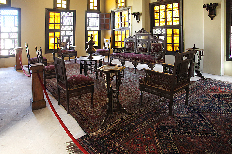 Reception room, Arab Killy house, Rashid, Egypt